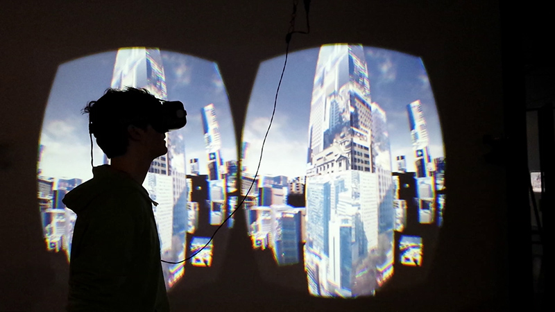 10.000 Moving Cities – Same but Different, VR (Virtual Reality) is an interactive net-and-telepresence-based installation and deals with globalization, cities and ‘Non-Places’. Visitors can select any city, using a digital interface. About the chosen city, latest posts on social networks are searched in real time and are simultaneously projected and mutually correlated onto building facades of an urban architecture. Using the installation, visitors will be teleported into their desired city and are able to explore and walk around the virtual city using 3D glasses.